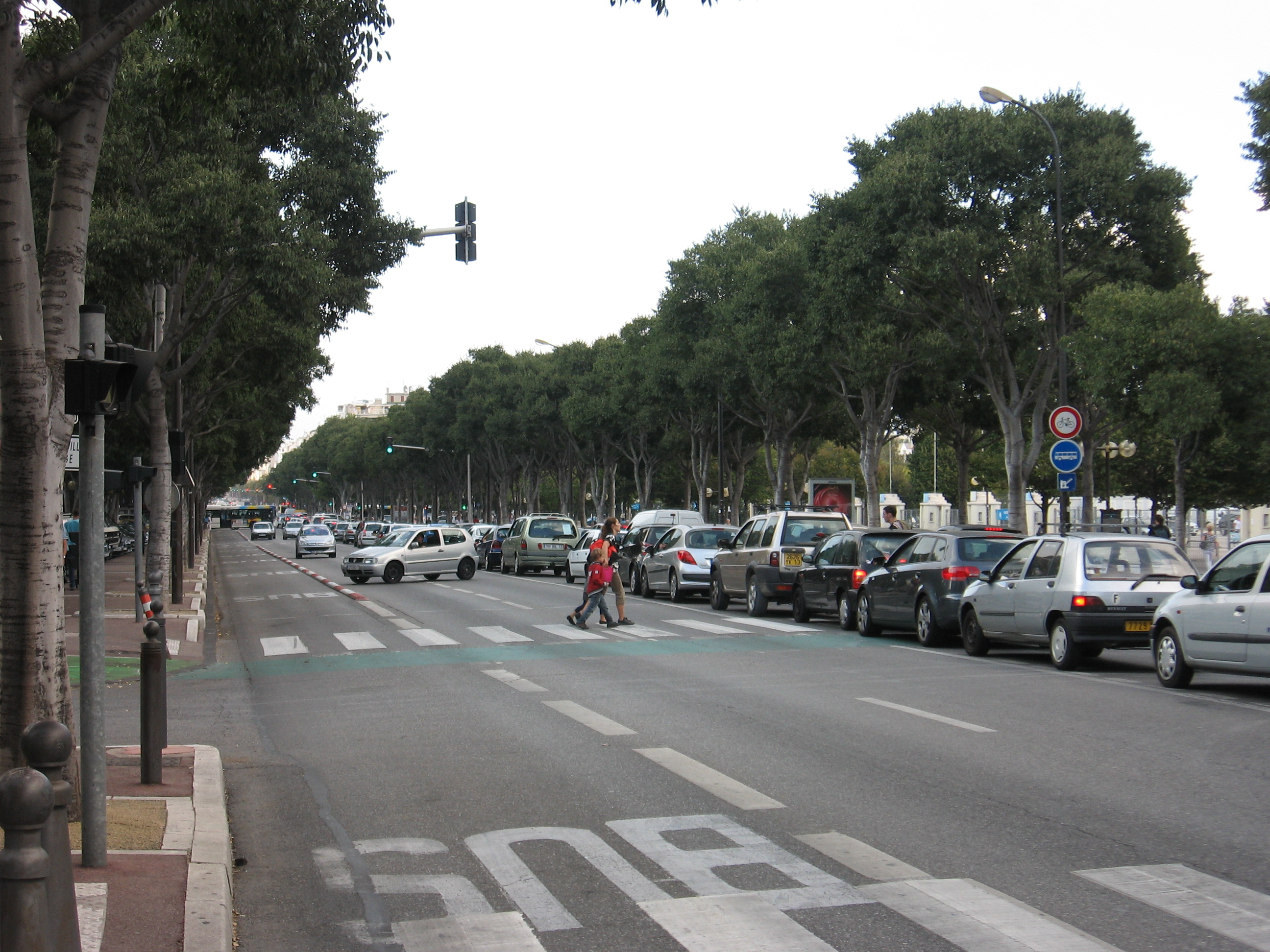 Avenue du Prado